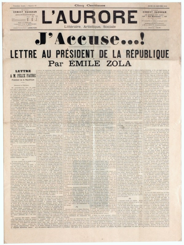 "I accuse...!" (J'accuse...!), open letter published on 13 January 1898 in the newspaper L'Aurore by French writer Émile Zola. In the letter, Zola addressed President of France Félix Faure and accused the government of anti-Semitism and the unlawful jailing of Alfred Dreyfus, pointing out judicial errors and lack of serious evidence.